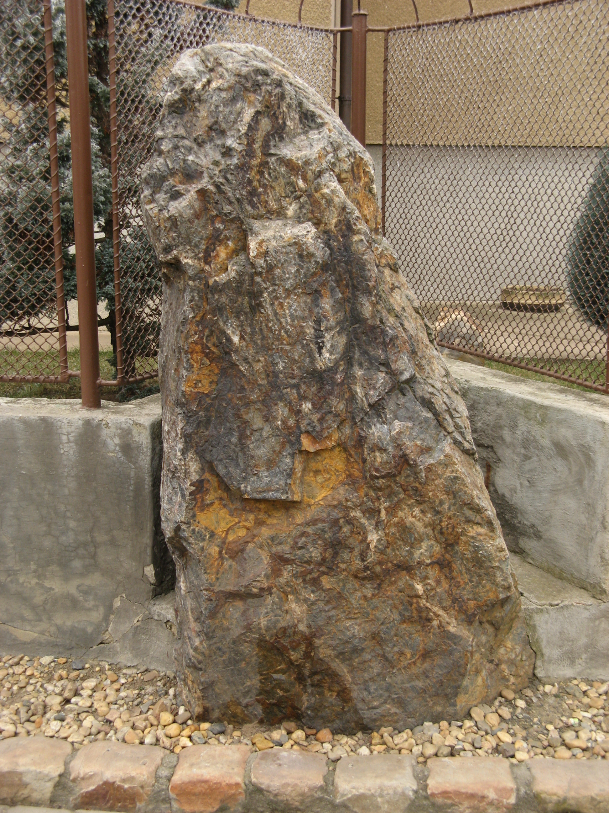 Menhir Stony Boy in Prague Dolní Chabry